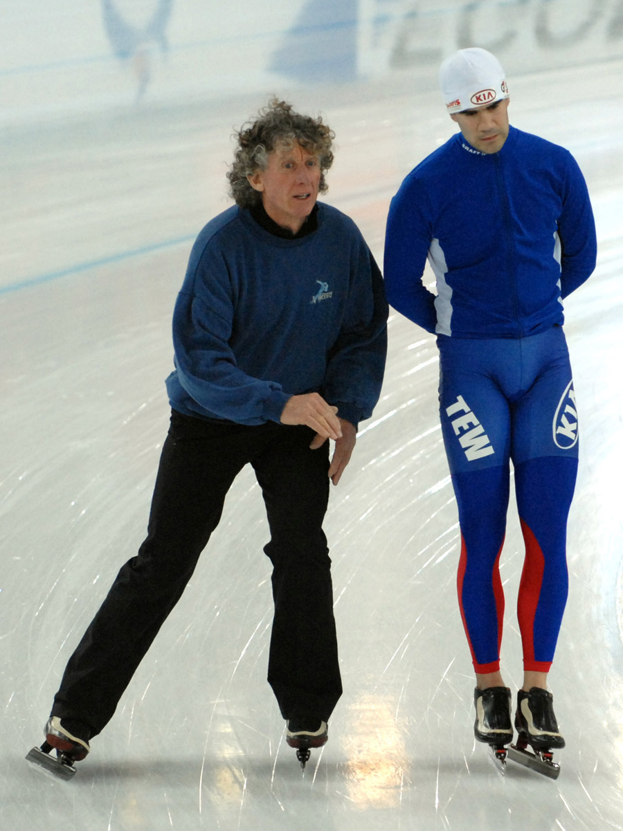 Colin Coates coaching Pascal Briand t the World Allround Championships in Hamar 2009